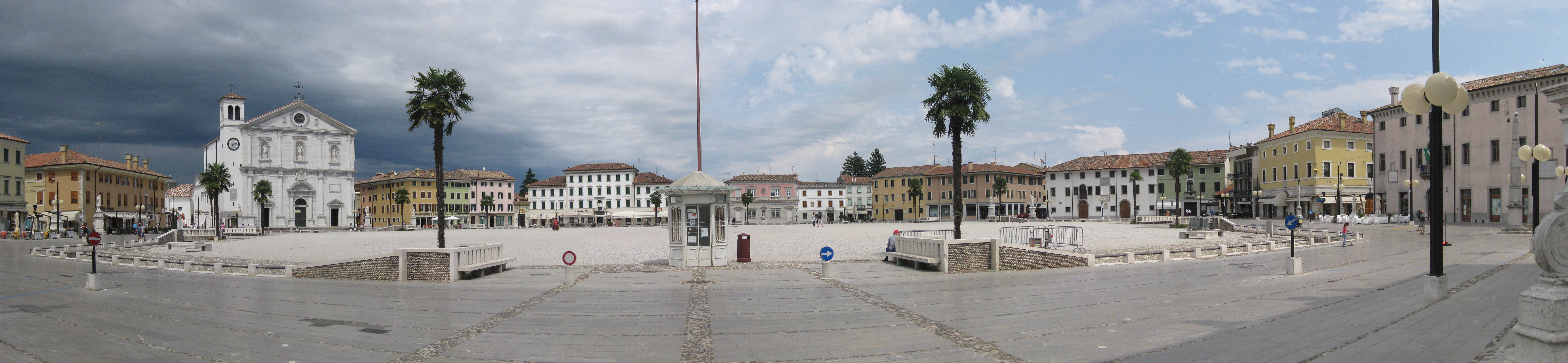 Panoramic shot of Palmanova's Piazza Centrale